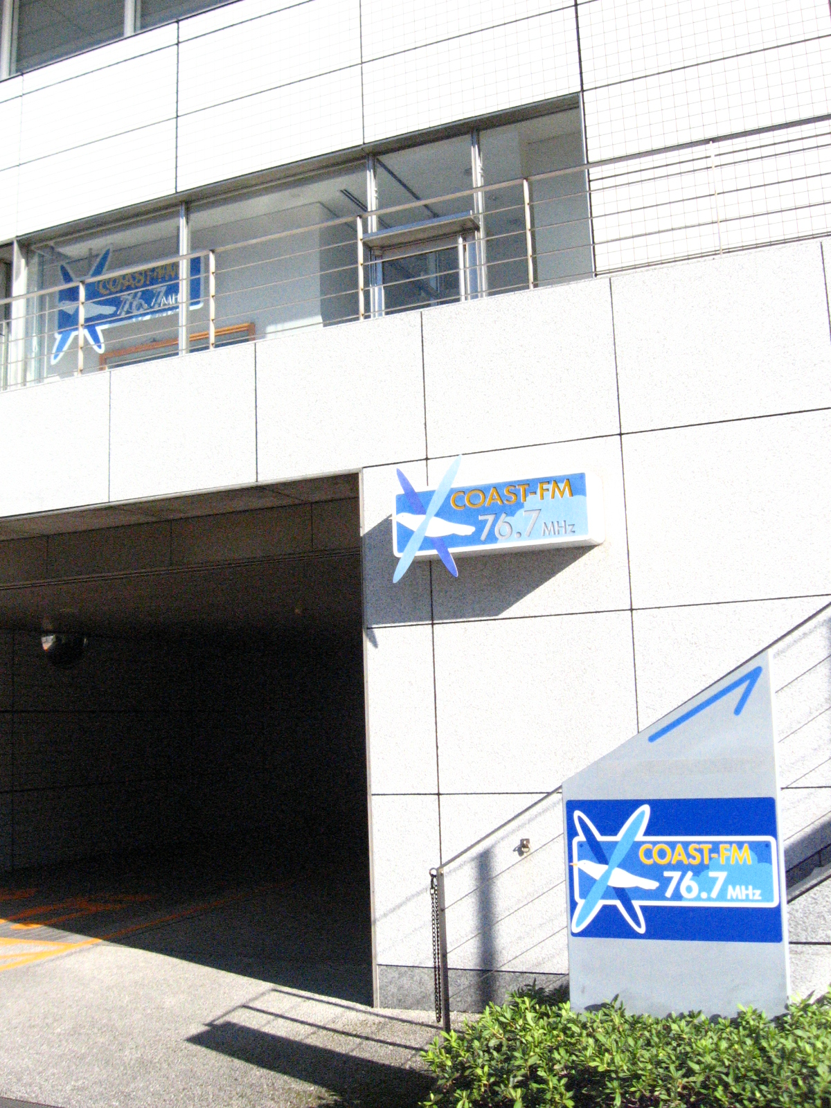 COAST-FM